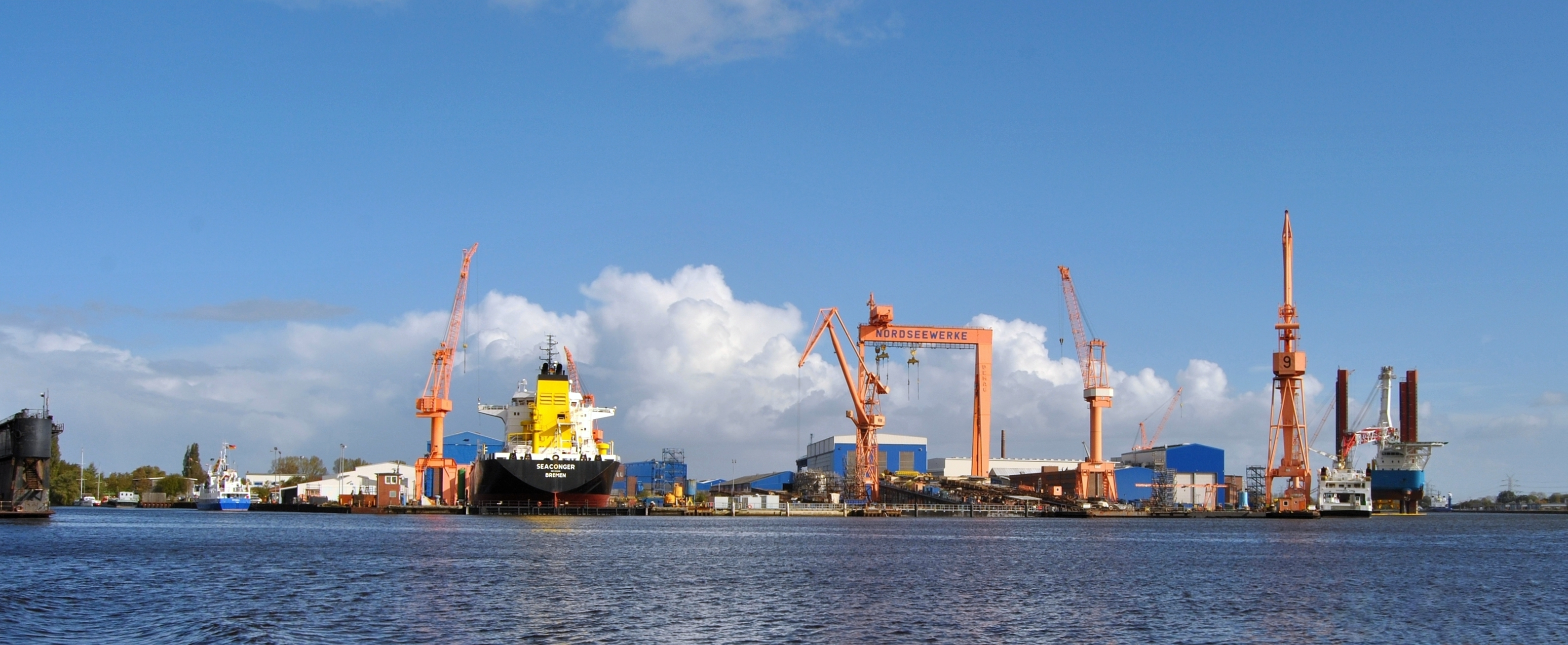 The shipyard „Nordseewerke“ with the inland port in the harbour of Emden, Germany